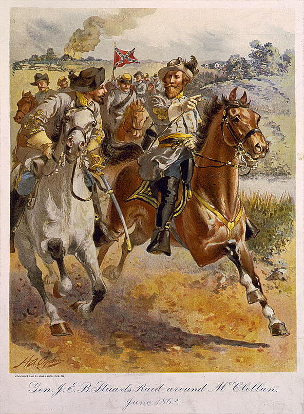 Gen. J.E.B. Stuart's raid around McClellan, June 1862.